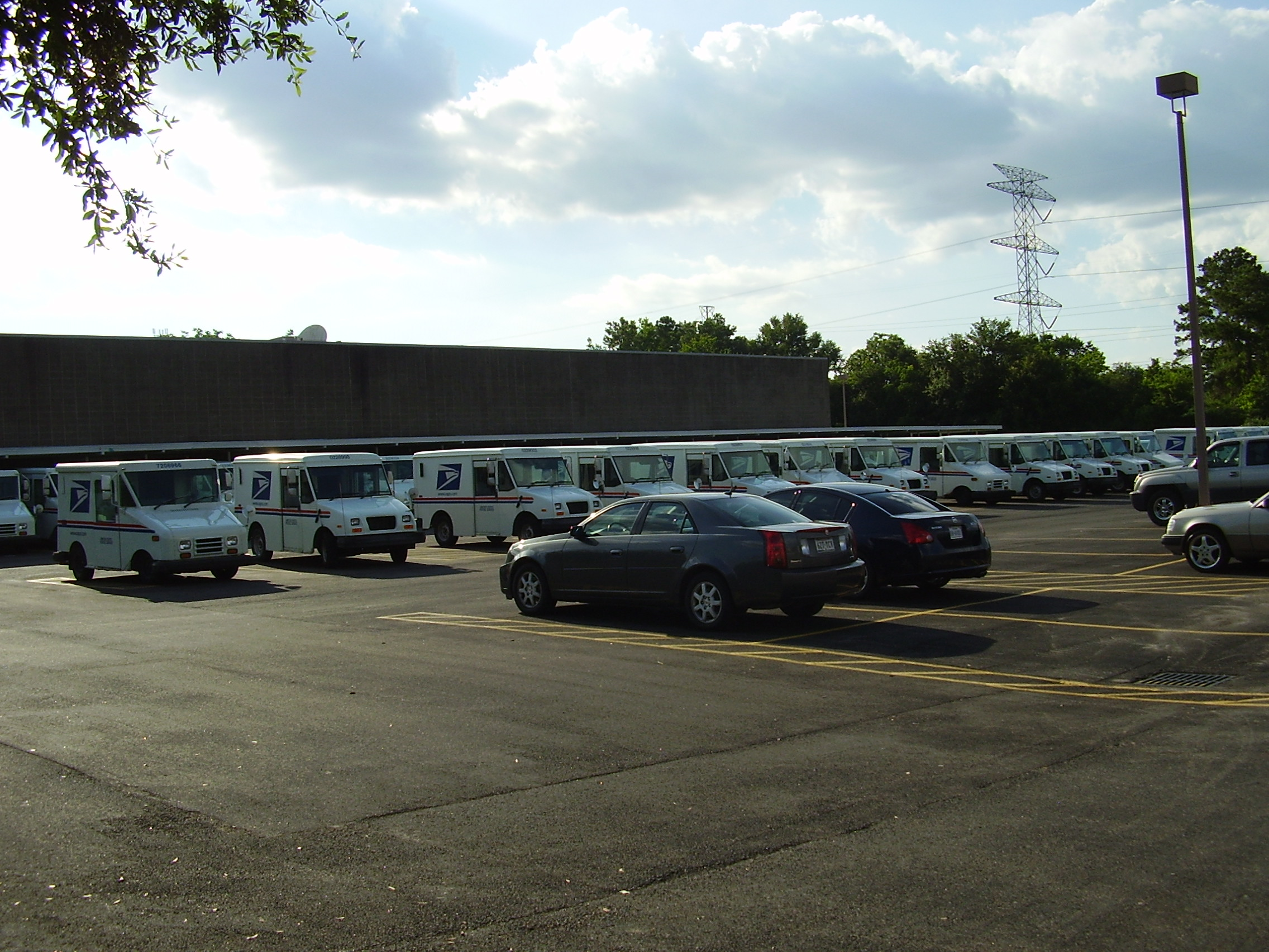 A fleet of post office vehicles at the James Griffith Station Post Office in Spring Branch, Houston